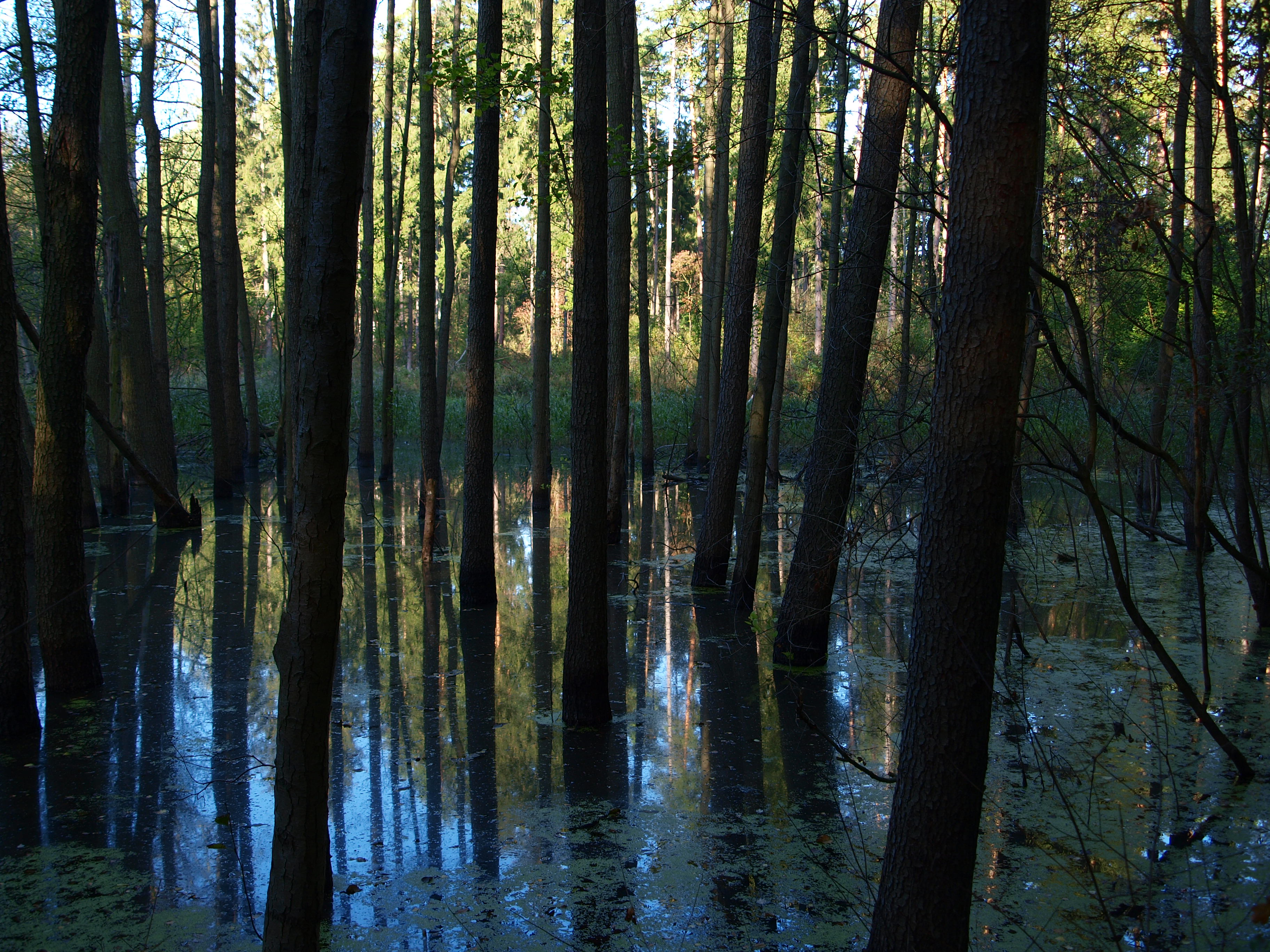 Riparian forest at the Oder River, Europe